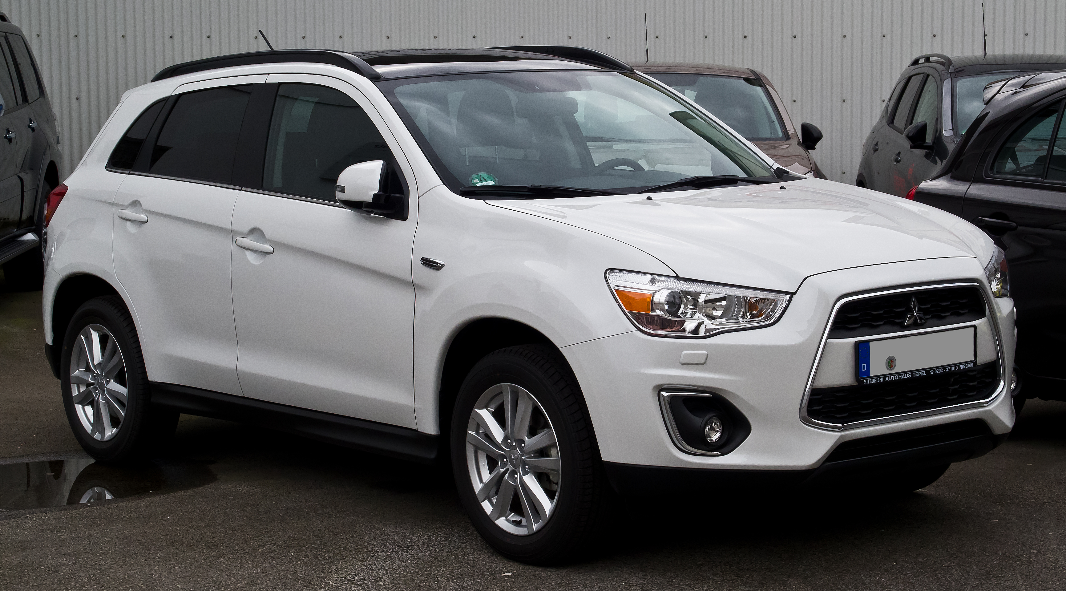 Mitsubishi ASX 1.8 DI-D+ ClearTec 4WD Instyle (Facelift)